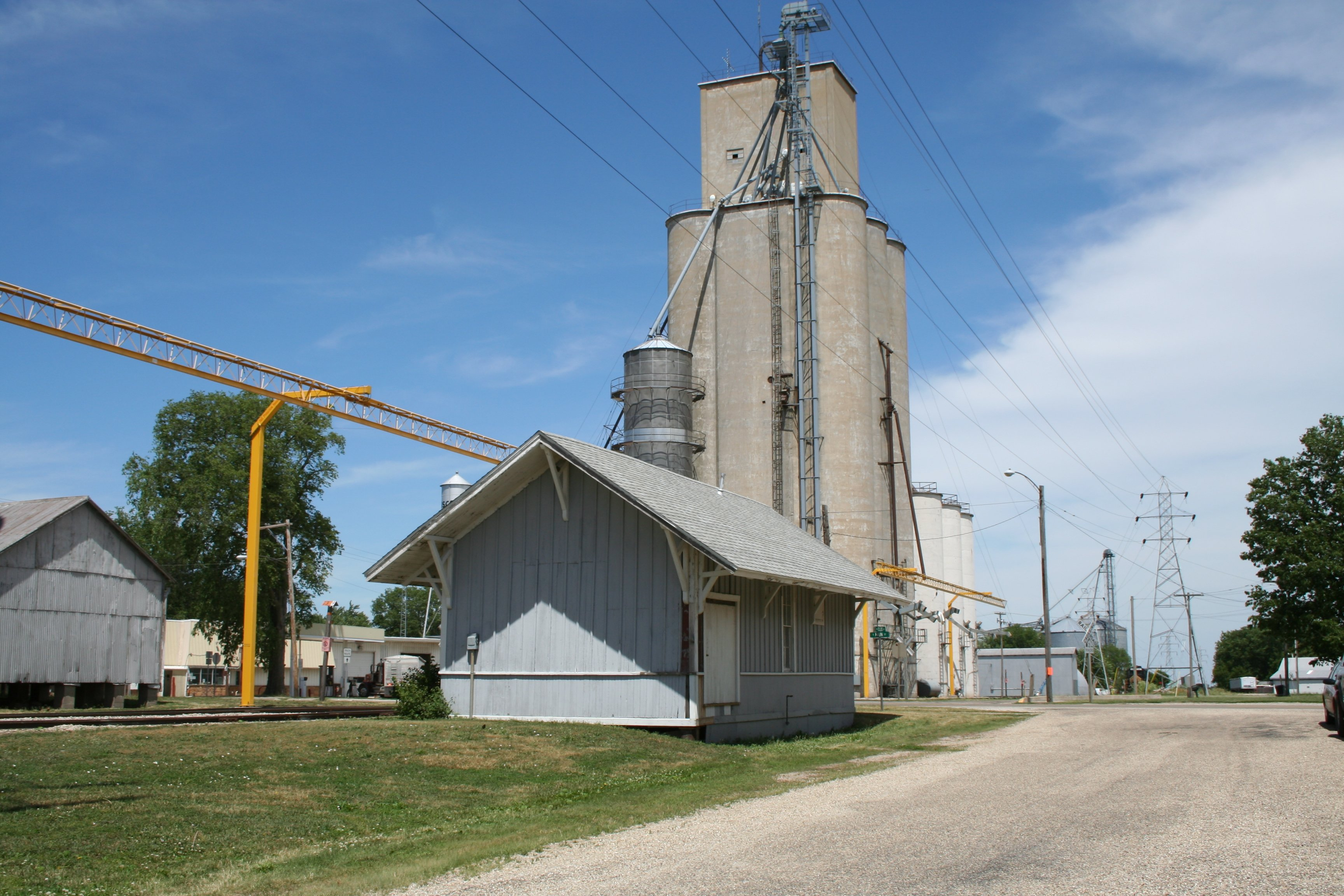 Cisco_Illinois_Old_Train_Depot_and_grain_elevator